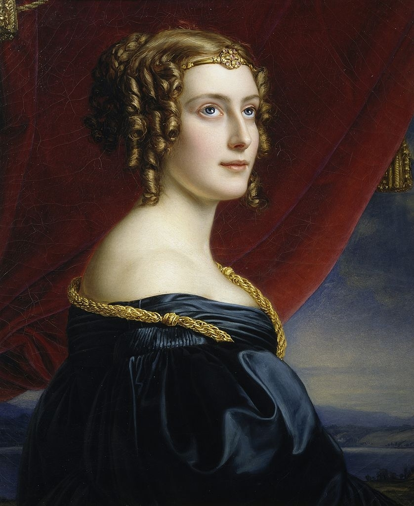 daughter of Admiral Henry Digby of Trafalgar, leading beauty of her time, scandaliser, courtier to royalty across Europe, married 6 times, contributor to the Kama Sutra, originator of the word "cad". Finally found true happiness with a bedouin Arab Sheikh, buried in Damaskus. Painted in 1831 as Lady Jane Ellenborough by Joseph Karl Stieler for the Schönheitengalerie of King Ludwig I of Bavaria